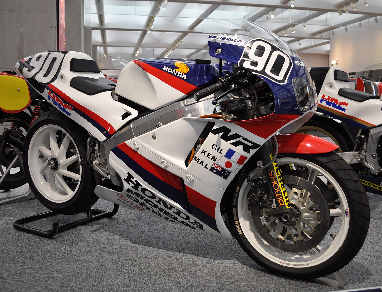 Honda NR750 (24 Hours of Le Mans 1987)